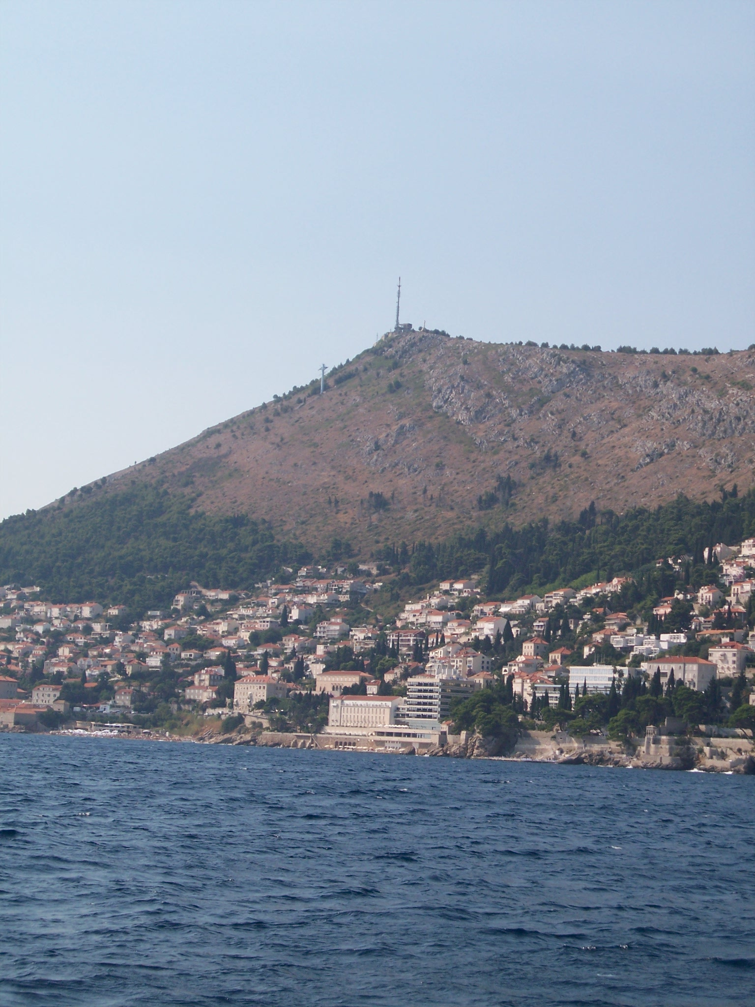 View on Dubrovnik and mountain of Srđ (Croatia)